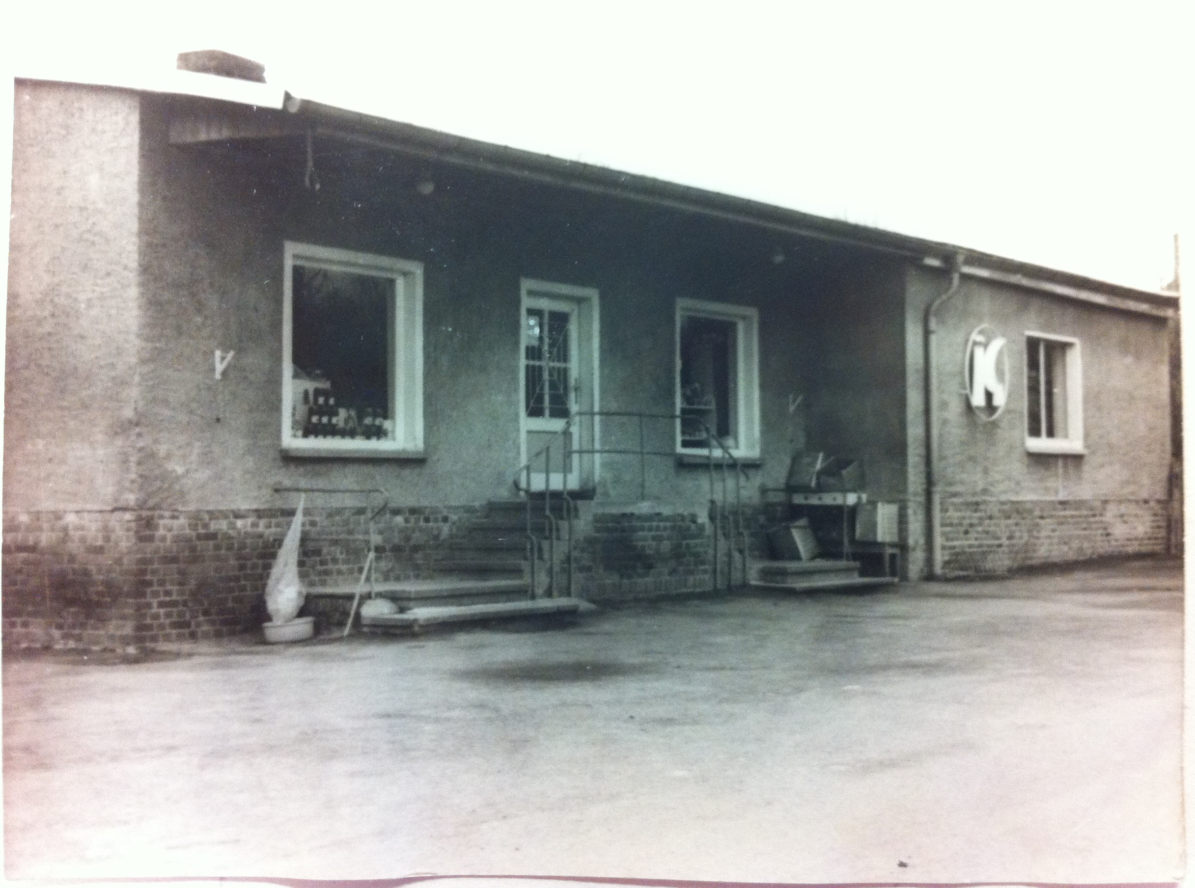 Benndorf shop